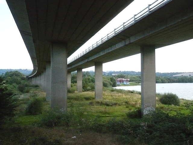 The A21 Tonbridge bypass viaduct The A21 Tonbridge Bypass crosses the Medway valley on a viaduct. To the west is Haysden (or Hayesden) Water, the home of Tonbridge Town Sailing Club. The foreground is underwater when the flood barrier is closed.